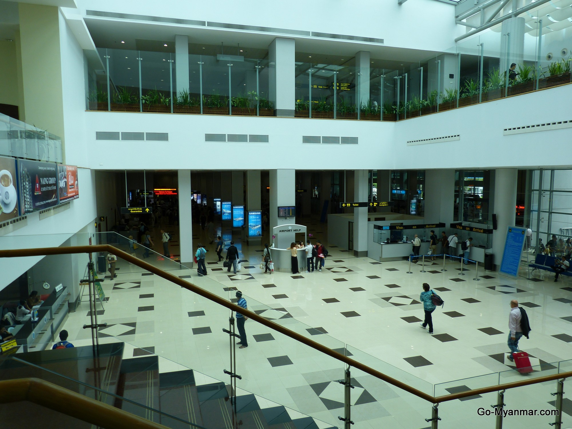 Yangon International Airport